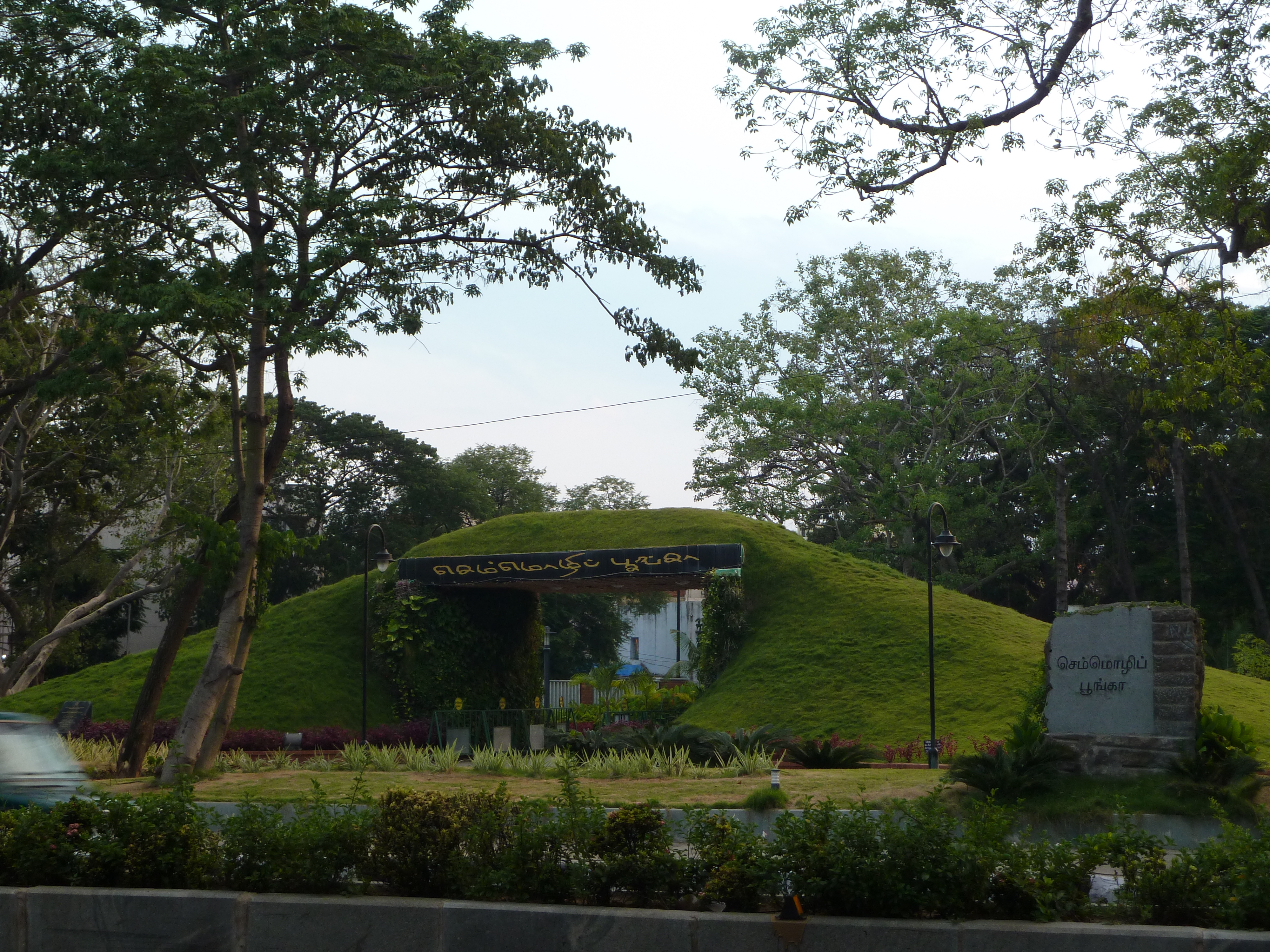 The entrance of Semmozhi Poonga situated at Cathedral road, Chennai, India